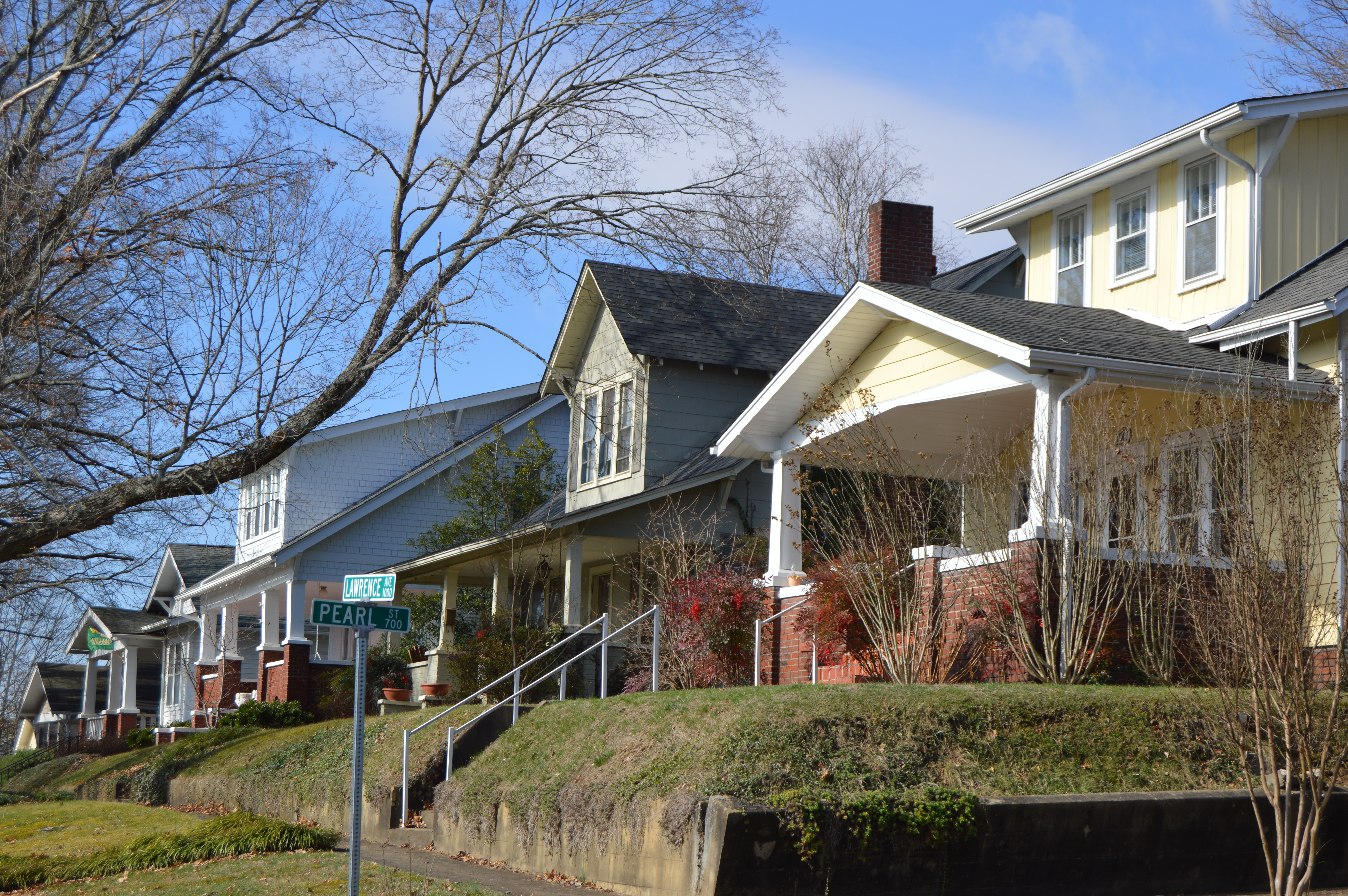 Houses on the northern side of Lawrence Avenue, seen looking west from the Pearl Street intersection, in Bristol, Virginia, United States. This block is part of the Euclid Avenue Historic District, a historic district that is listed on the National Register of Historic Places.